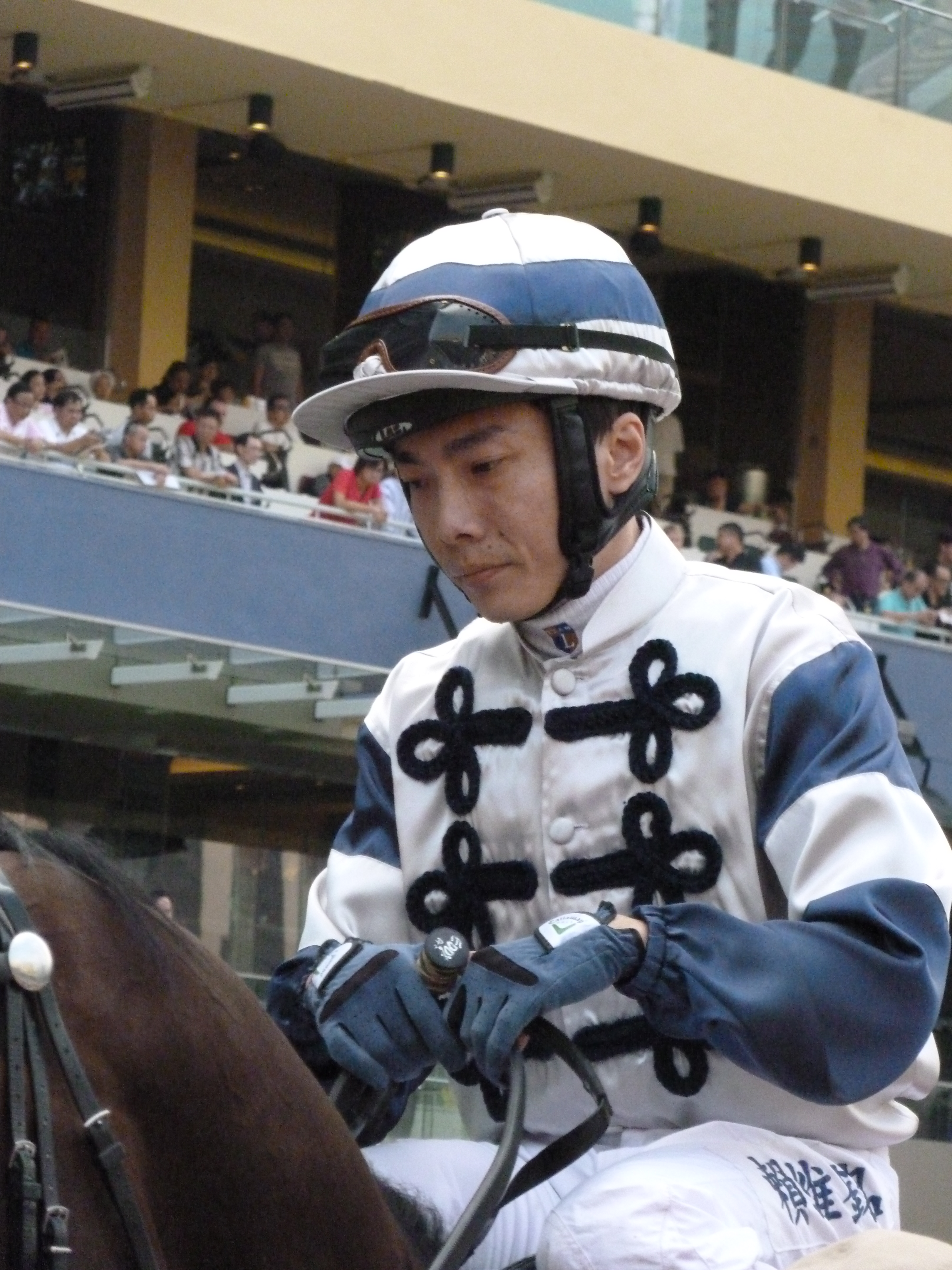 Eddy W M Lai (20 Oct 2013, Happy Valley Racecourse)中文（香港）: 賴維銘 (20 Oct 2013, 跑馬地日馬)